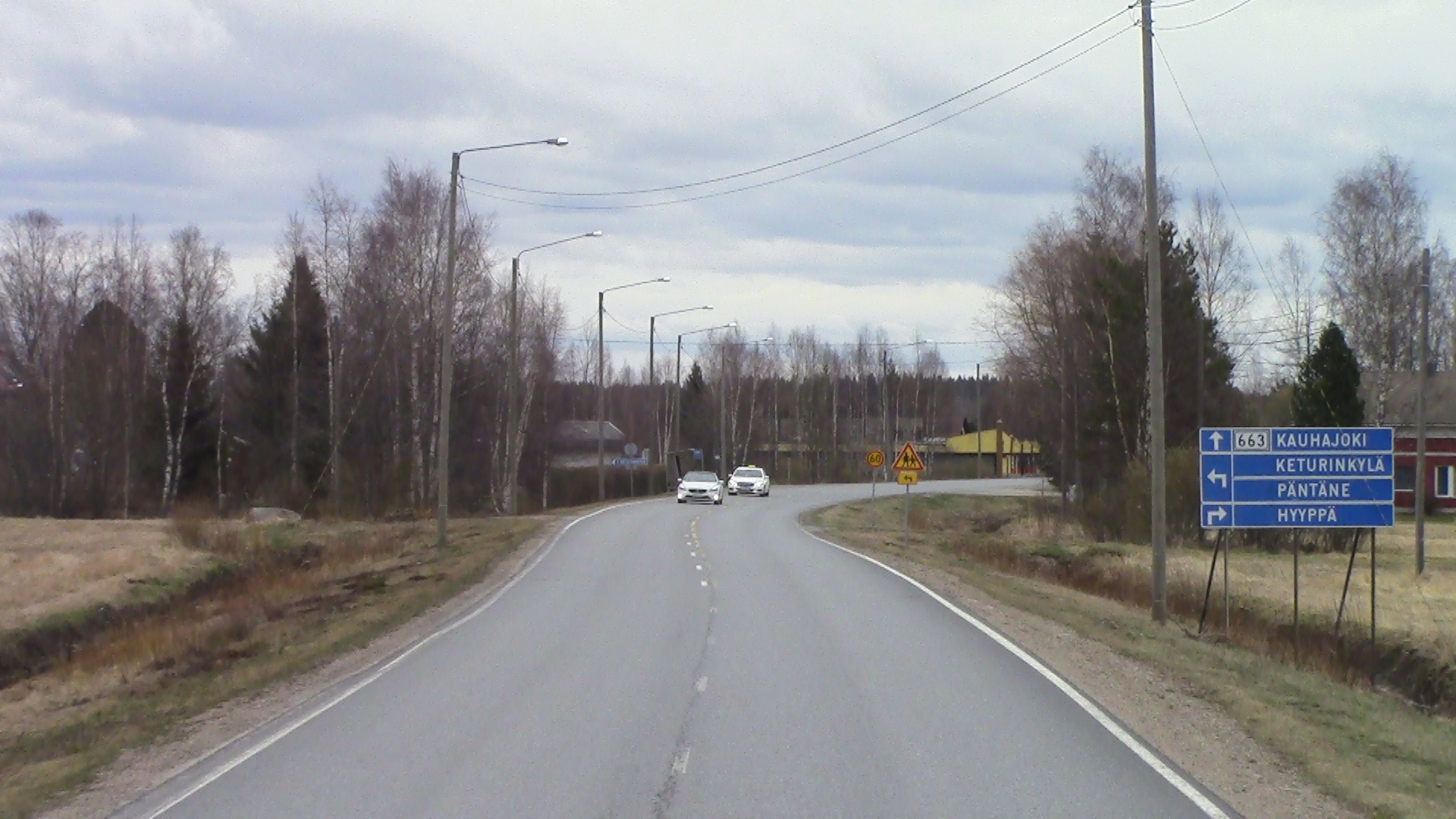 Finnish regional road 663 at Päntäne in Kauhajoki, Southern Ostrobothnia. The road runs from Kristiinankaupunki to Kauhajoki.